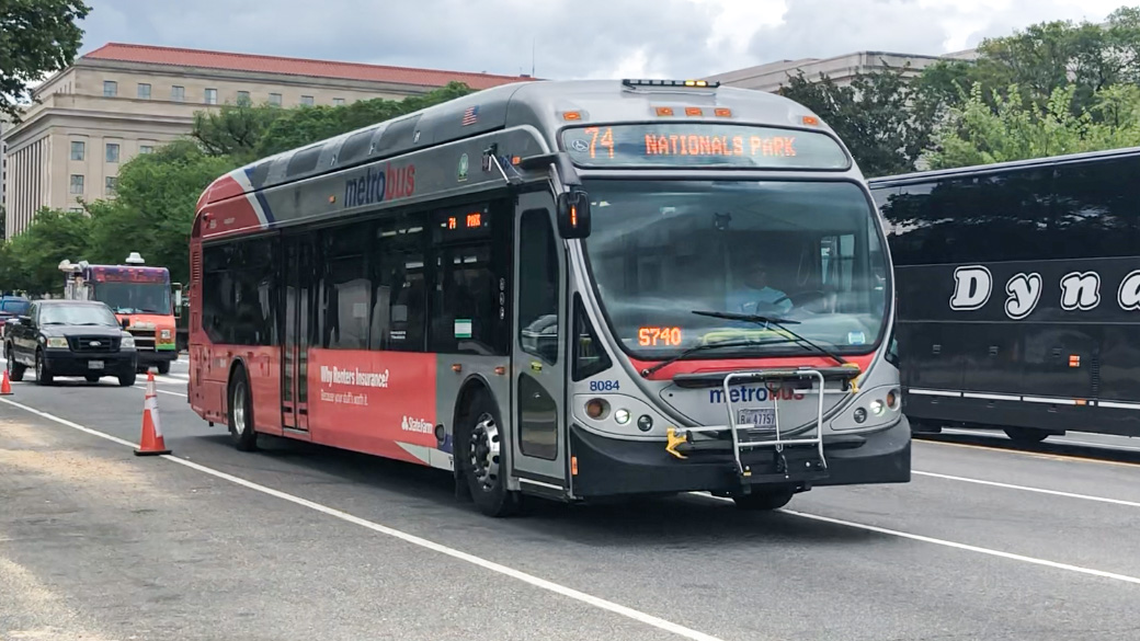 WMATA 2014 NABI 42 BRT 8084 on Route 74 Running in the National Mall heading to Nationals Park. This Route was recently moved to Shepherd Parkway division during the Weekdays.